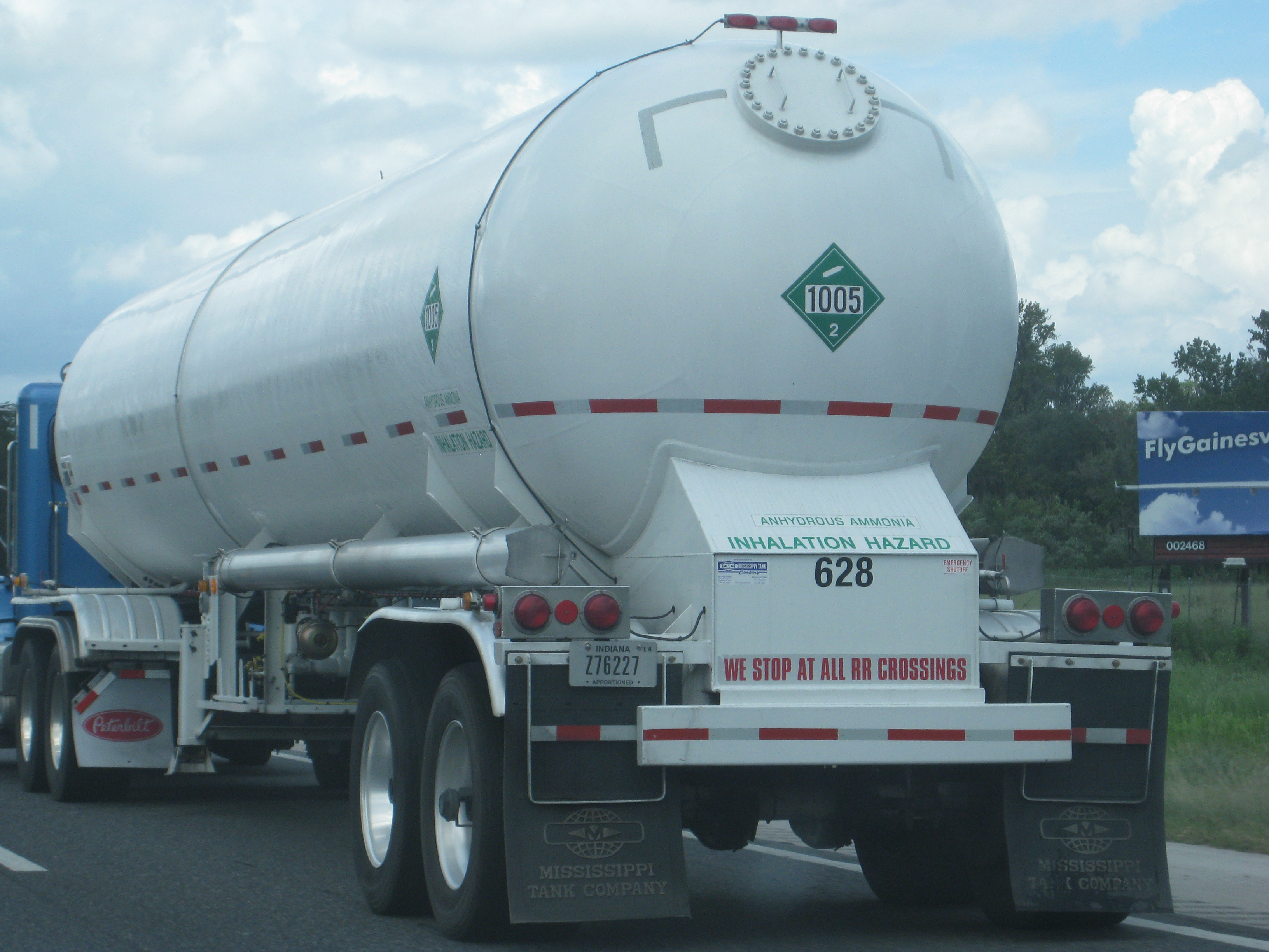 Effortlessly uploaded by Eye-Fi